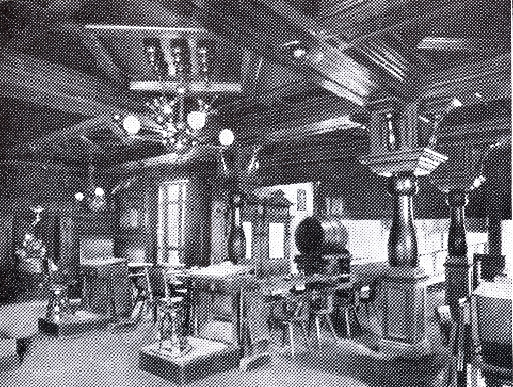 t